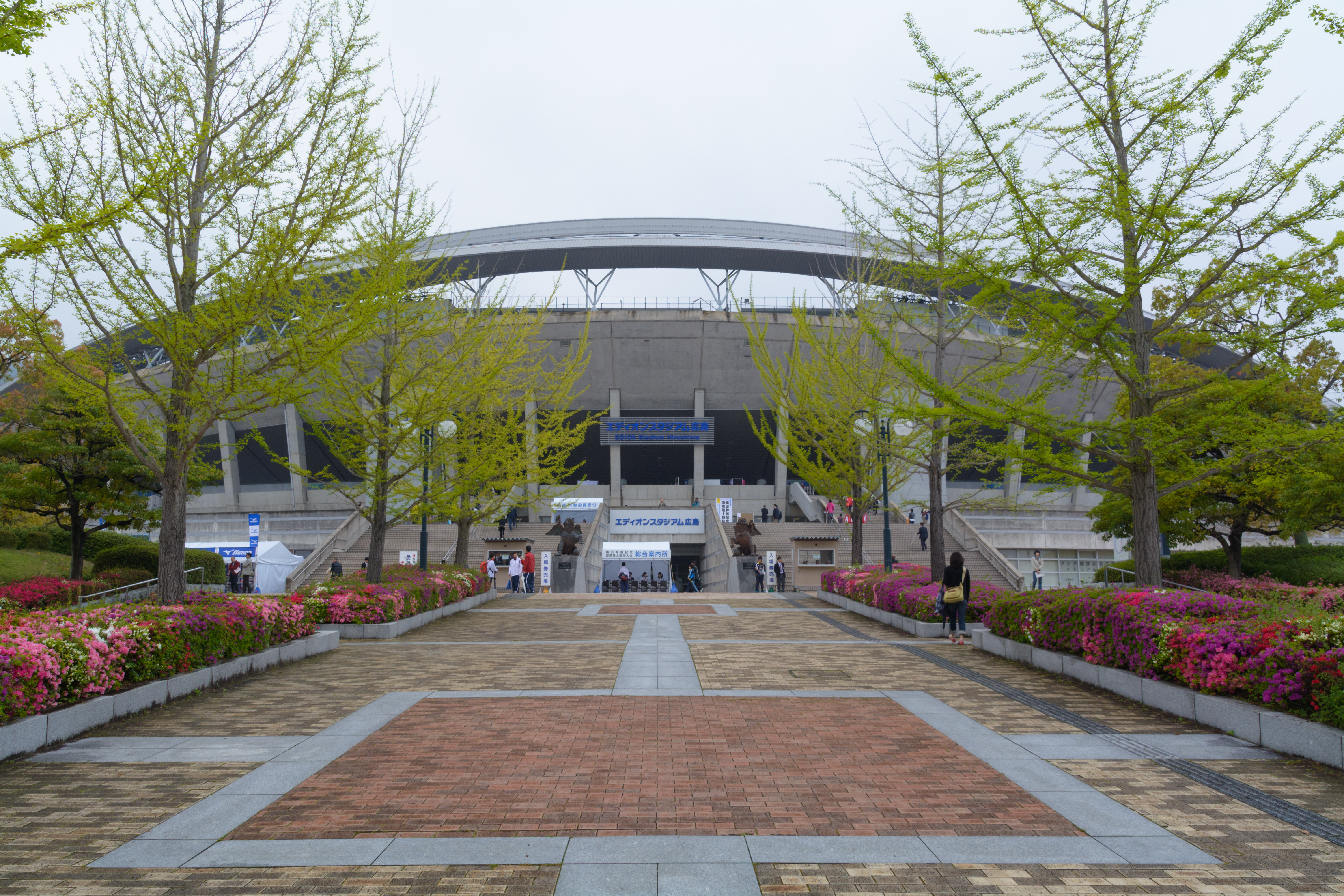 Main gate of Hiroshima Big Arch